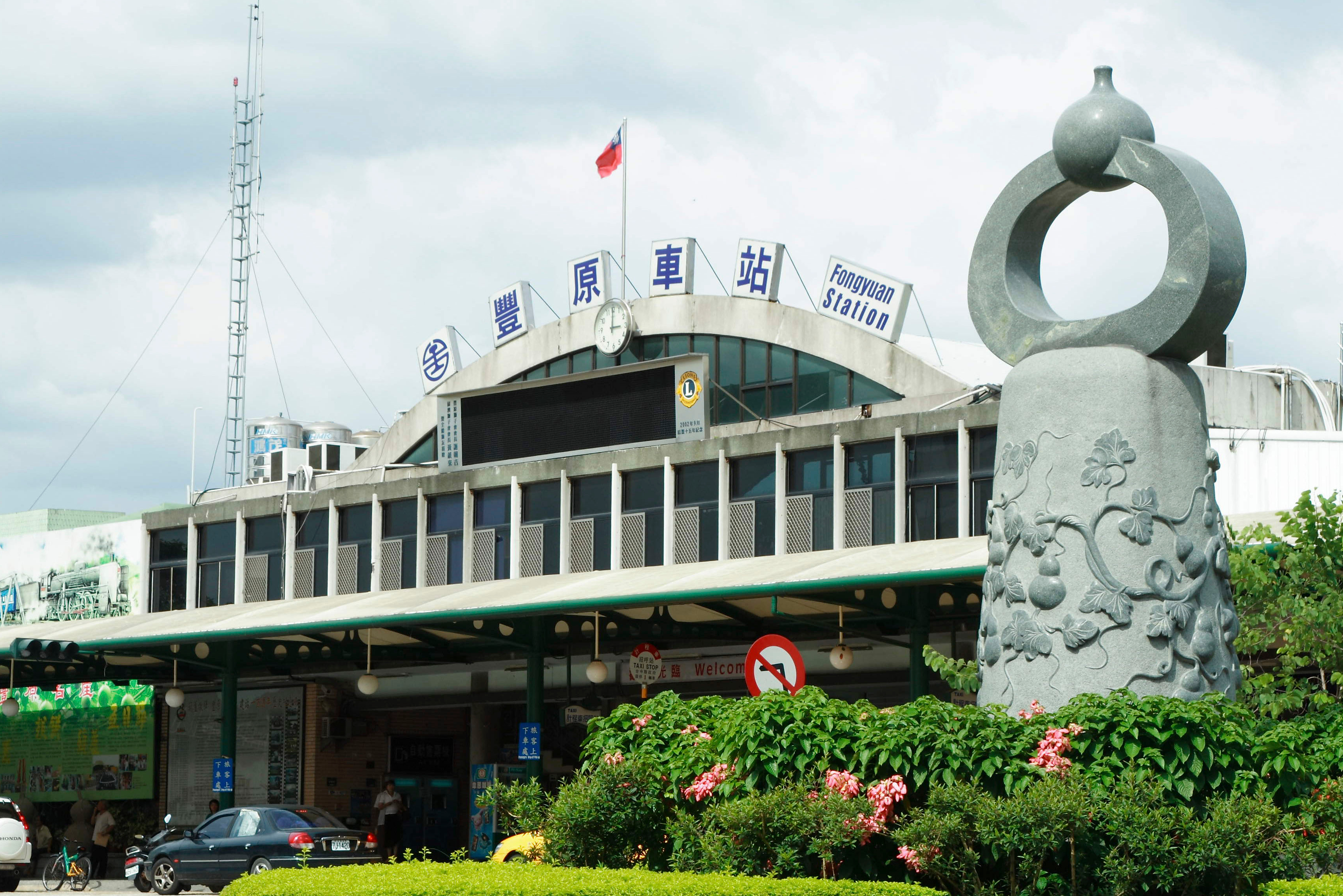 Taiwan Railway Administration Fongyuan Station.